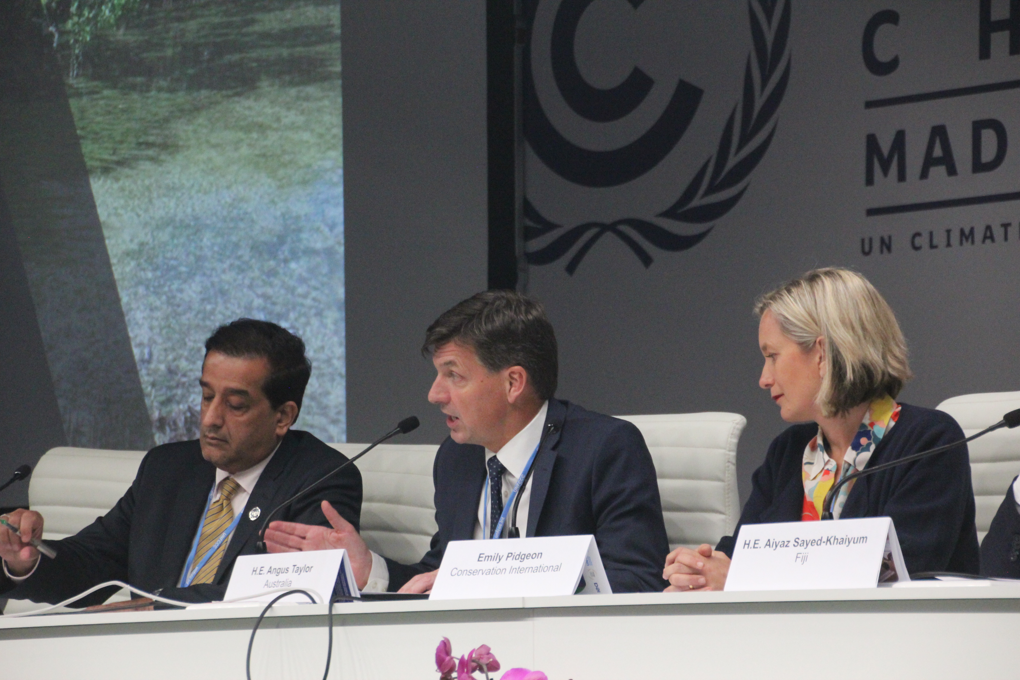 Blue Carbon Initiative side-event Tuesday 10 December 2019 Australian Energy Minister Angus Taylor attended and made a short speech. Australian diplomat and negotiator Kushla Munro featured on the policy expert panel after the ministerial panel. Blue Carbon Initiative aims to mitigate against the risks of climate change for coastal areas around the globe.